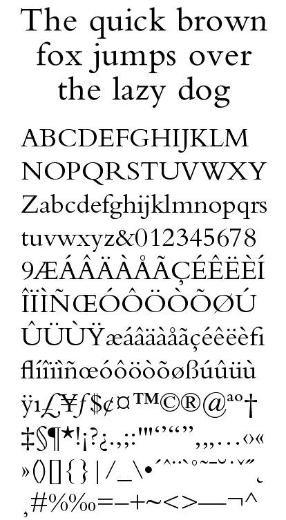 A sample of the Bembo typeface, a 20th-century revival based on a typeface designed and cut by Francesco Griffo in 1495.